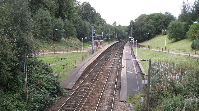 Dumbreck railway station Original description: Dumbreck Station On the line to Glasgow from Paisley Canal station.